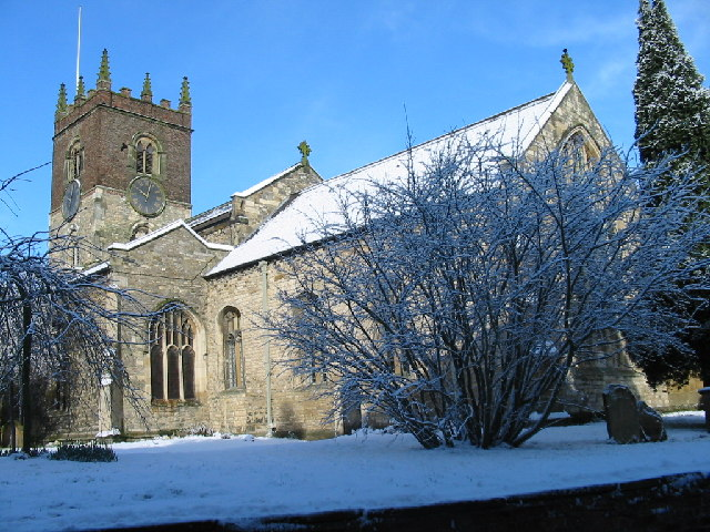 All Saints' parish church, Market Weighton, East Riding of Yorkshire, England, seen from the southeast.